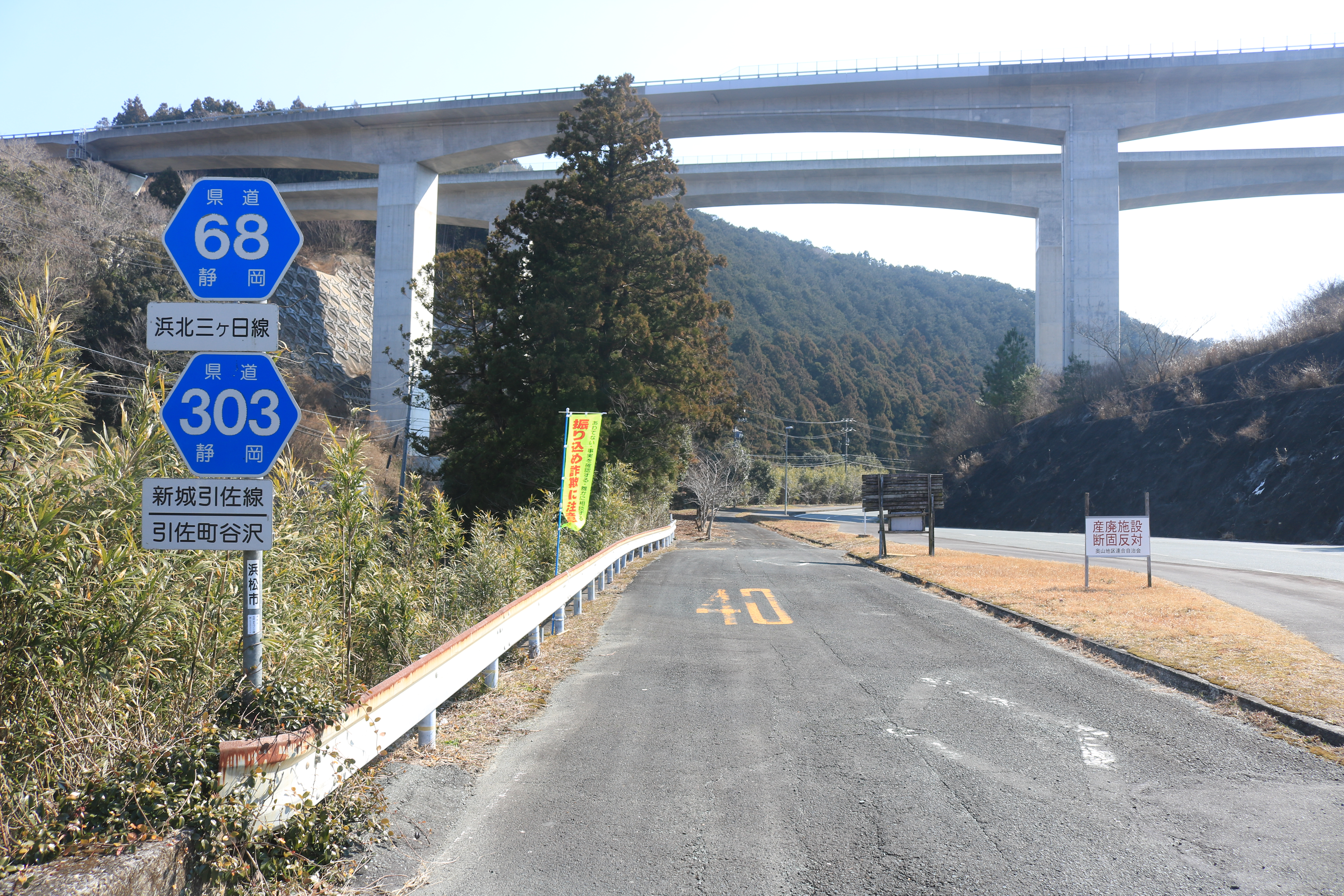 Shizuoka Prefectural Road Route 68, Shizuoka Prefectural Road Route 303 and Shin-Tōmei Expressway in Yazawa, Inasacho, Kita-ku, Hamamatsu, Shizuoka Prefecture, Japan. Canon EOS Kiss X8i